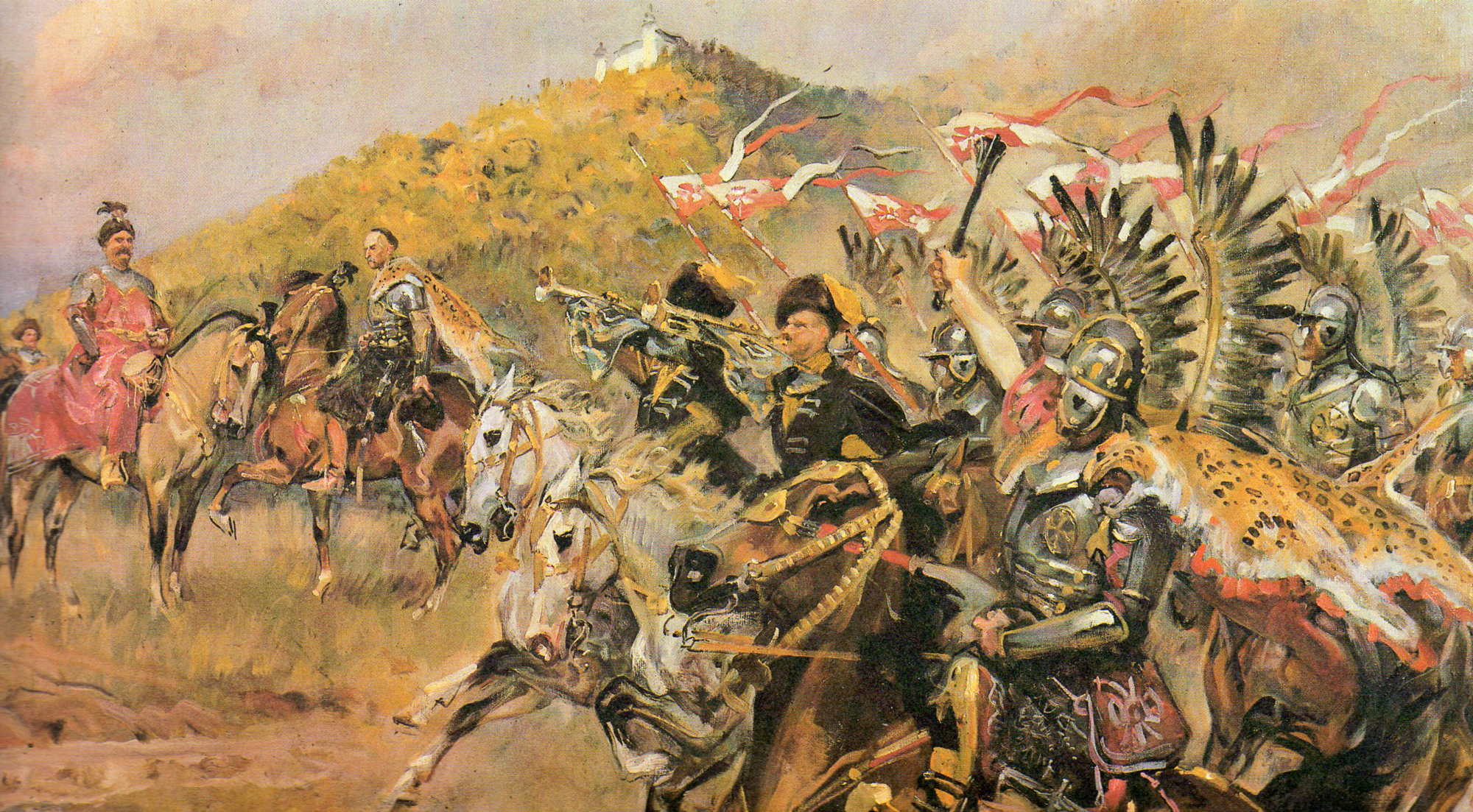 Regiment of Husaria before king John Sobieski by Vienna